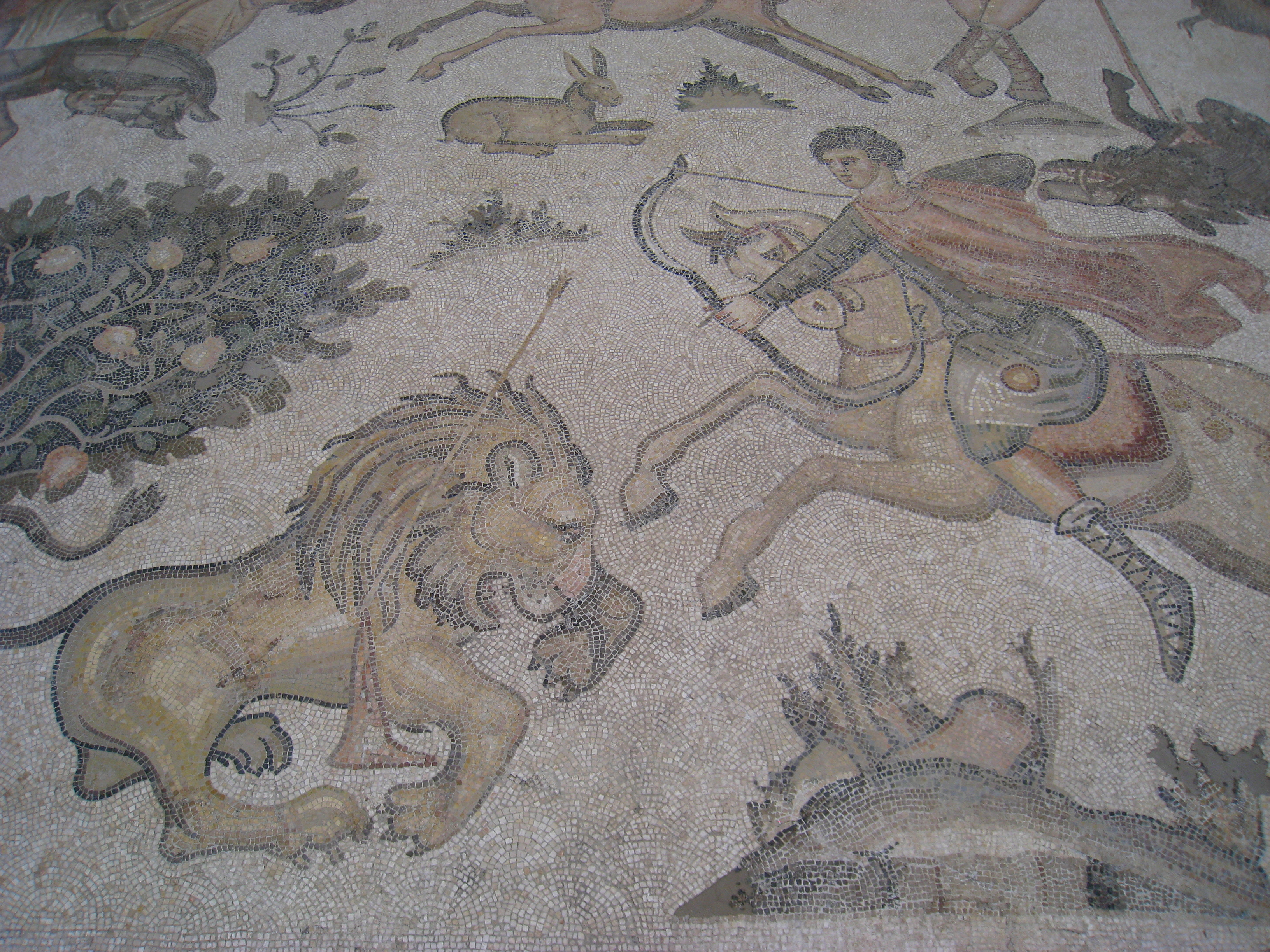 Antioch mosaics in the Worcester Art Museum, Worcester, Massachusetts, USA. The museum permits photography and does not restrict usage of the photographs.